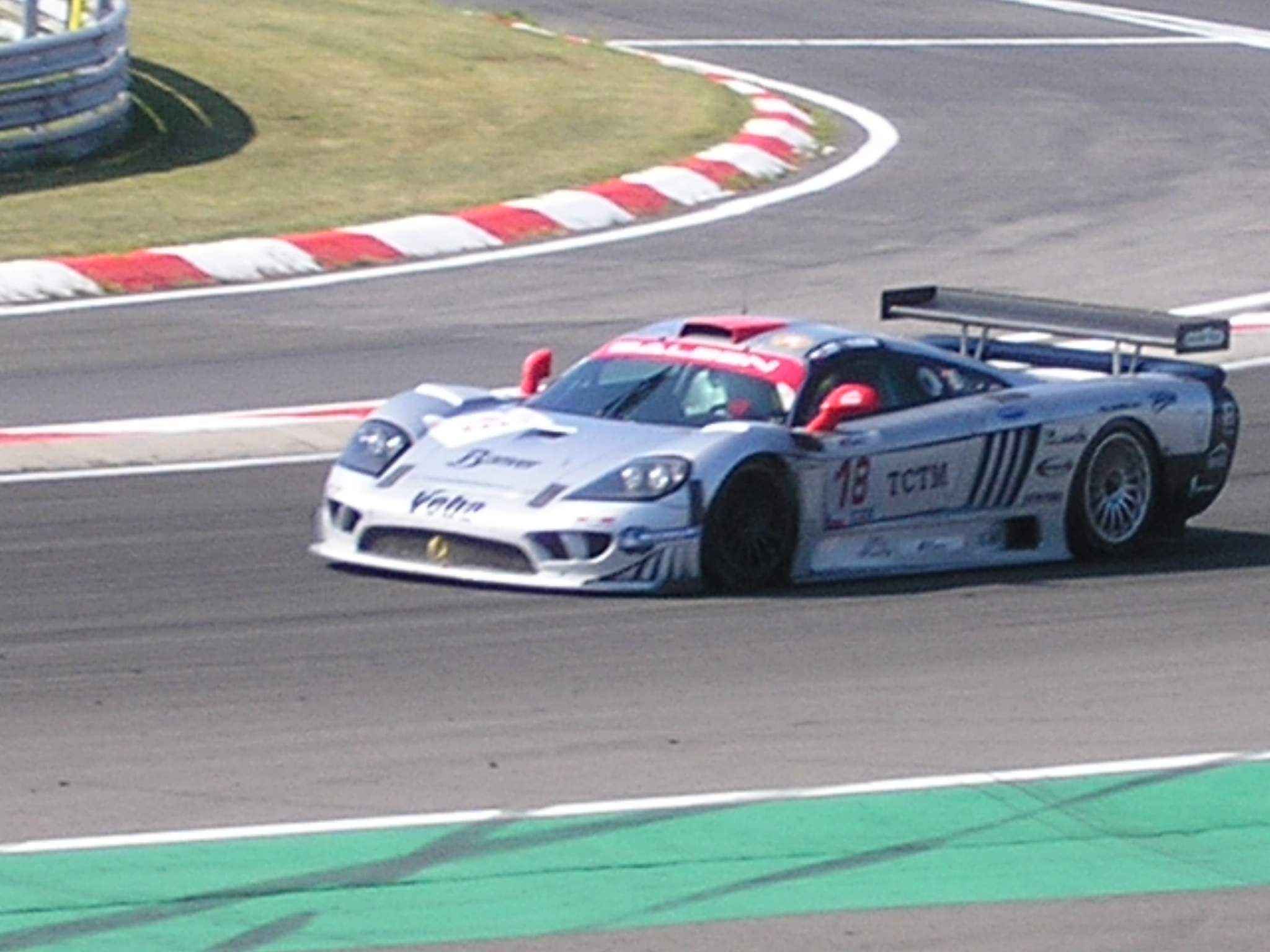 2009 FIA GT Budapest City